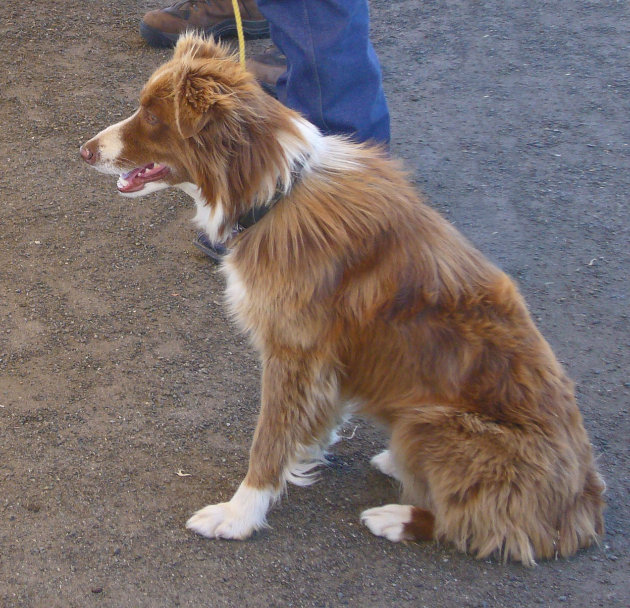 A red Border Collie.